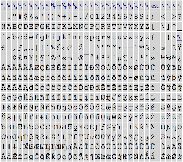 The first 512 characters of Unicode, but with C1 characters rendered as their Windows-1252 equivalents. This is equivalent to the first 512 HTML numerical character references.[1]